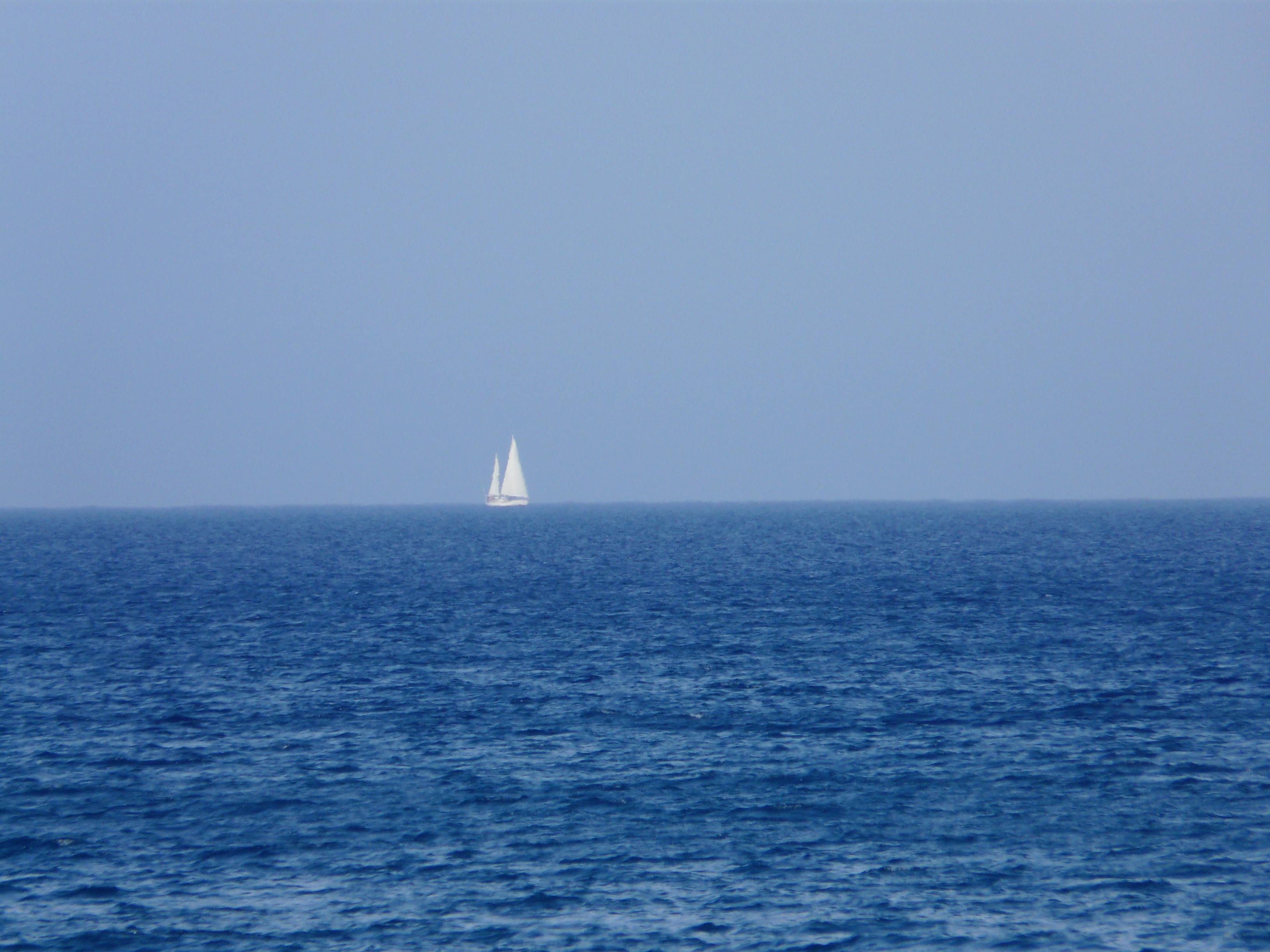 Rhodes A boat near the village of Kalathos